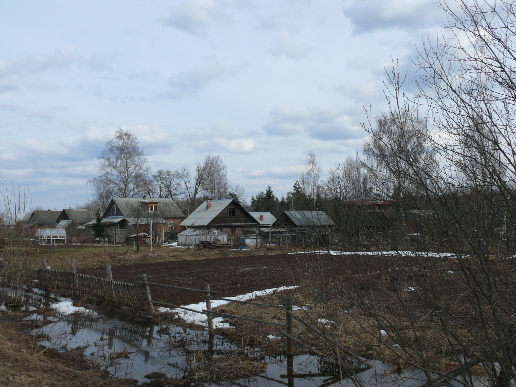 Zhabitsy village, Novgorodsky district, Novgorod oblast, Russia